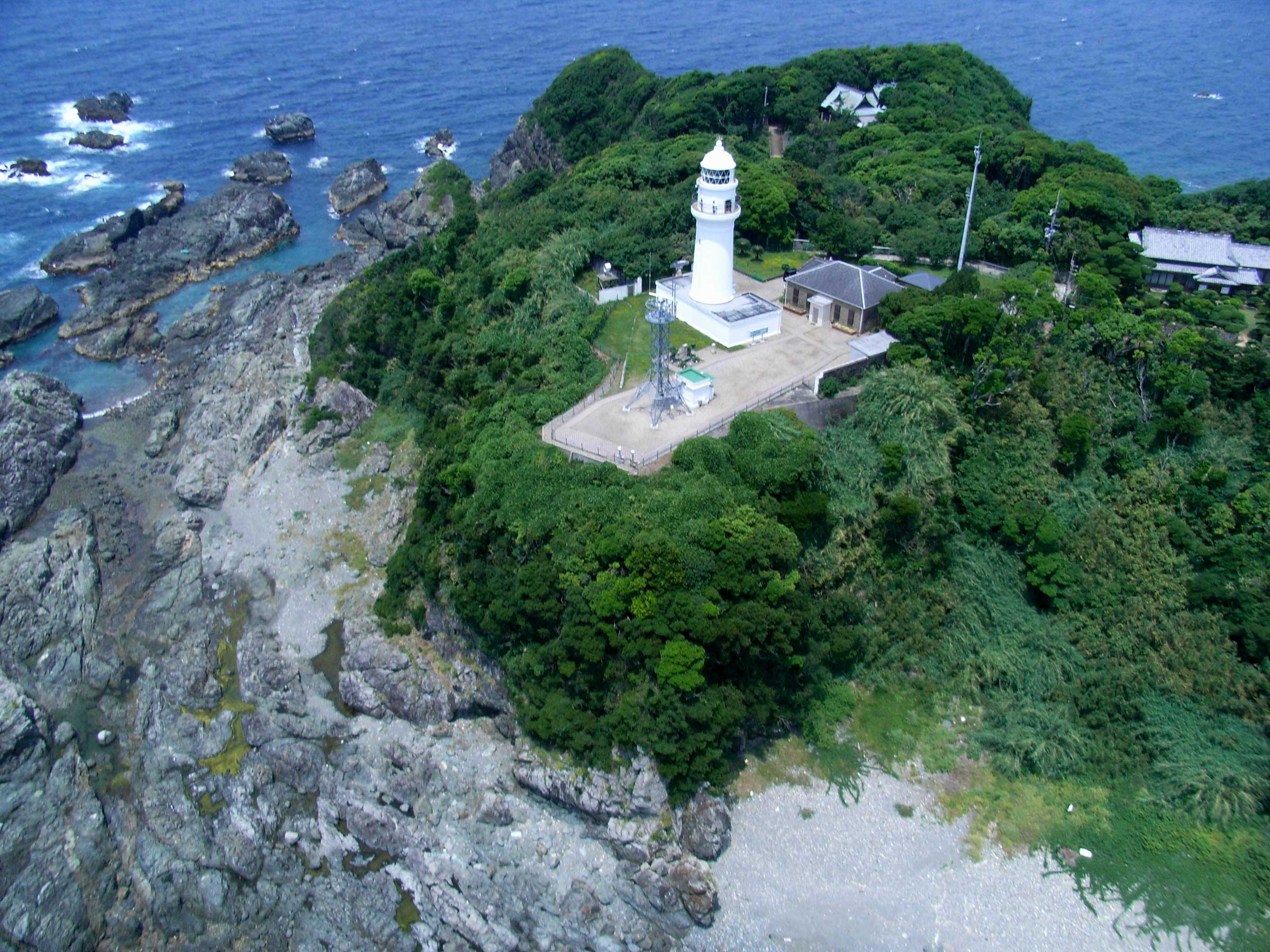 Aerial photograph of Shiono Misaki lighthouse in Kushimoto, Wakayama Prefecture, Japan.